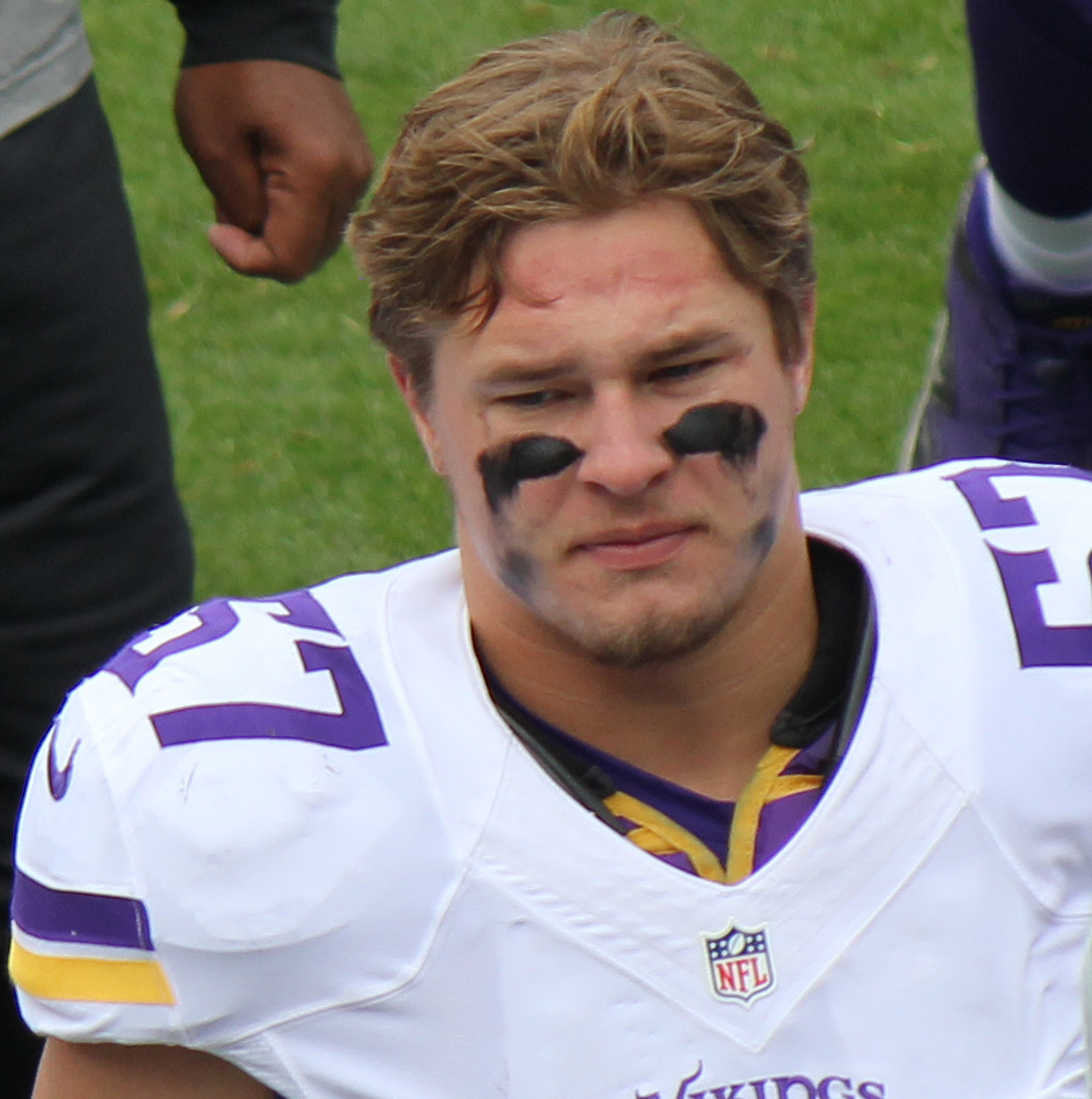 Audie Cole, a player on the National Football League.